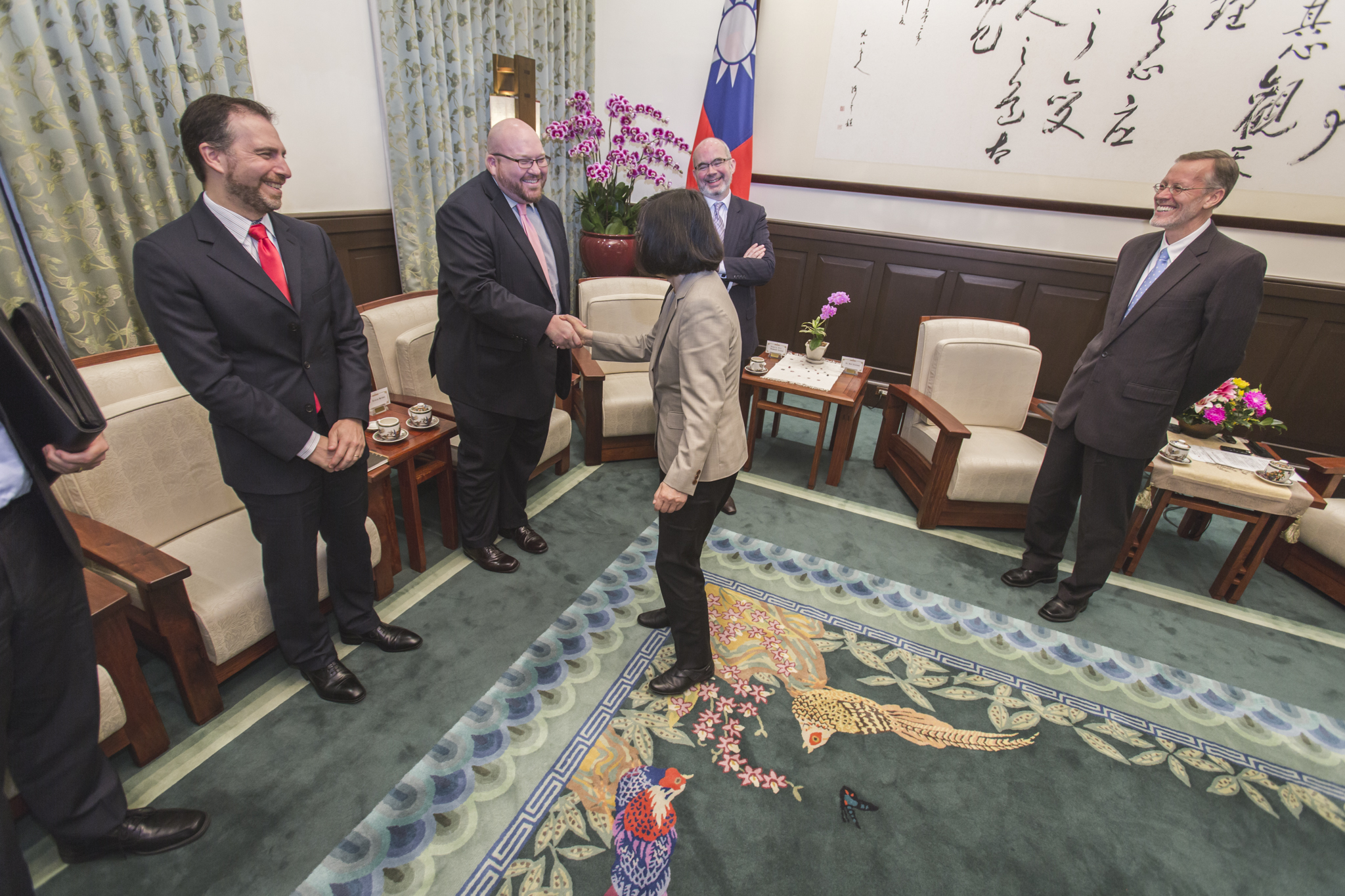 Authorization Method & Scope: Office of the President, Republic of China (Taiwan)｜Government Website Open Information Announcement